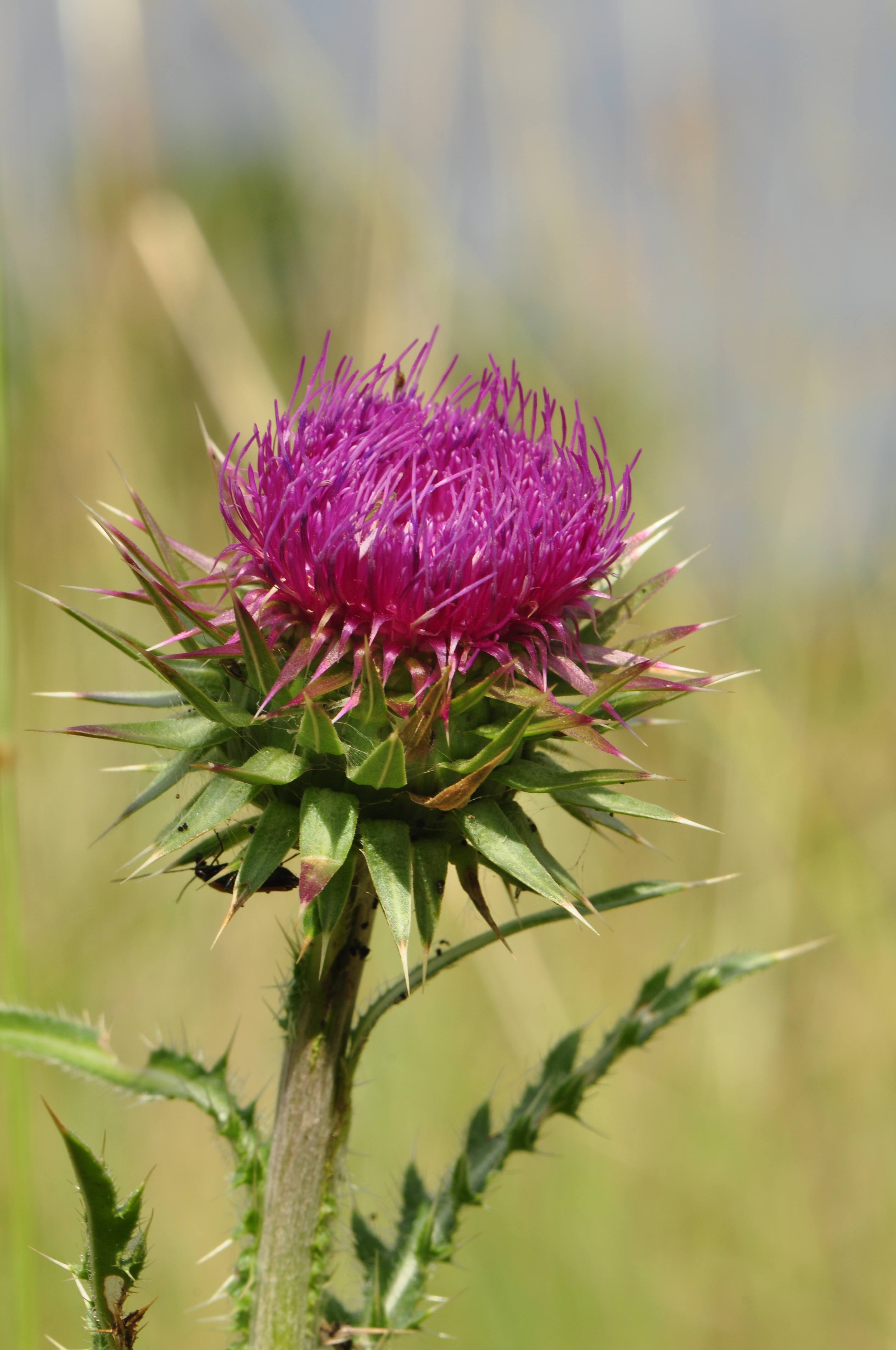 Inflorescence Taxonym: Carduus nutans subsp. nutans ss Fischer et al. EfÖLS 2008 ISBN 978-3-85474-187-9 Location: Heidenstatt near Limberg, district Hollabrunn, Lower Austria - ca. 385 m a.s.l. Habitat: nutrient-rich patches in open grassland/edges of shrubbery